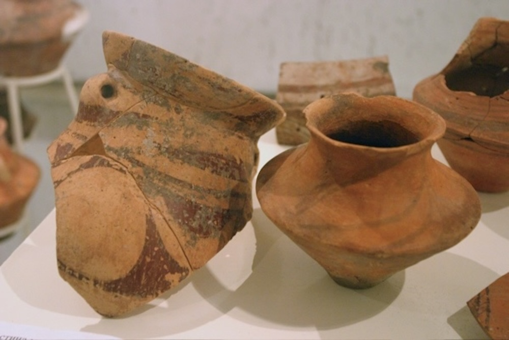 Trypillian Pottery